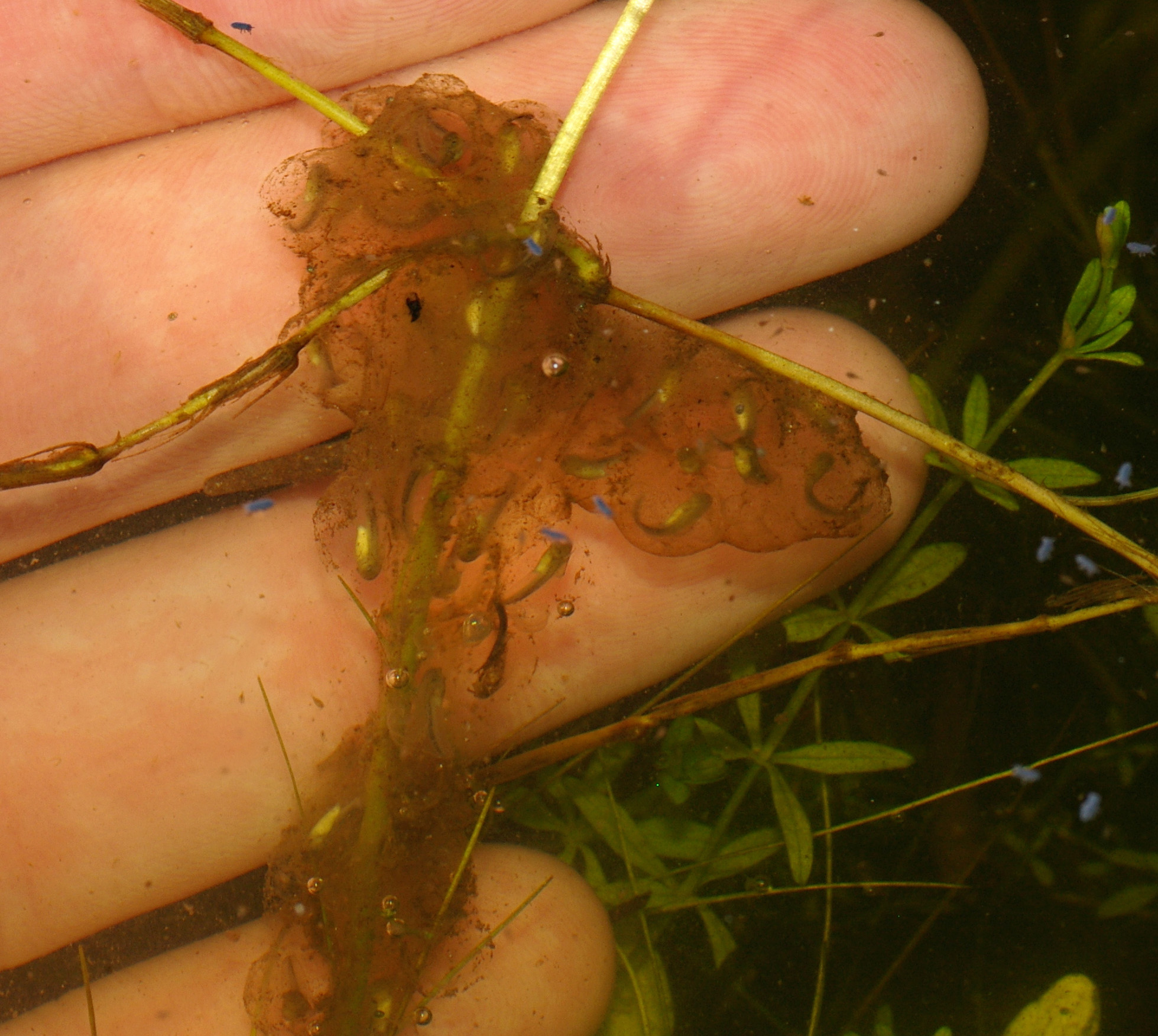 Spawn of the European Tree Frog (Hyla arborea) in stage of hatching. The tadpoles are just beginning to leave the eggs.